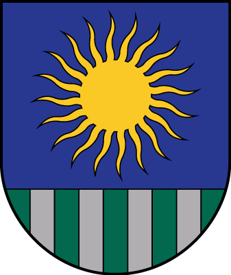 Coat of arms of Saulkrastu novads, Latvia